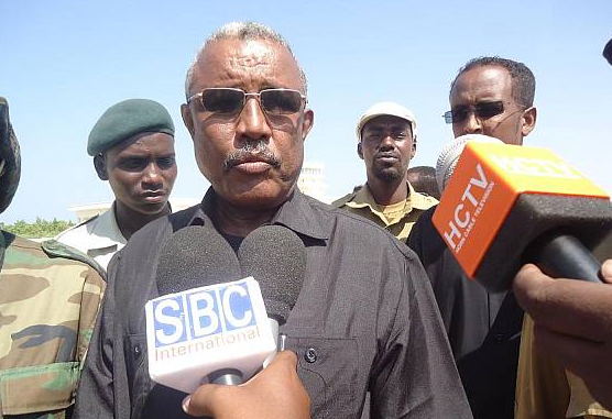 Eng. Lacle the Deputy Minister of Ports and Counter Piracy of Puntland speaking to the media about Somali Pirates being transferred from Seychelles Authorities.